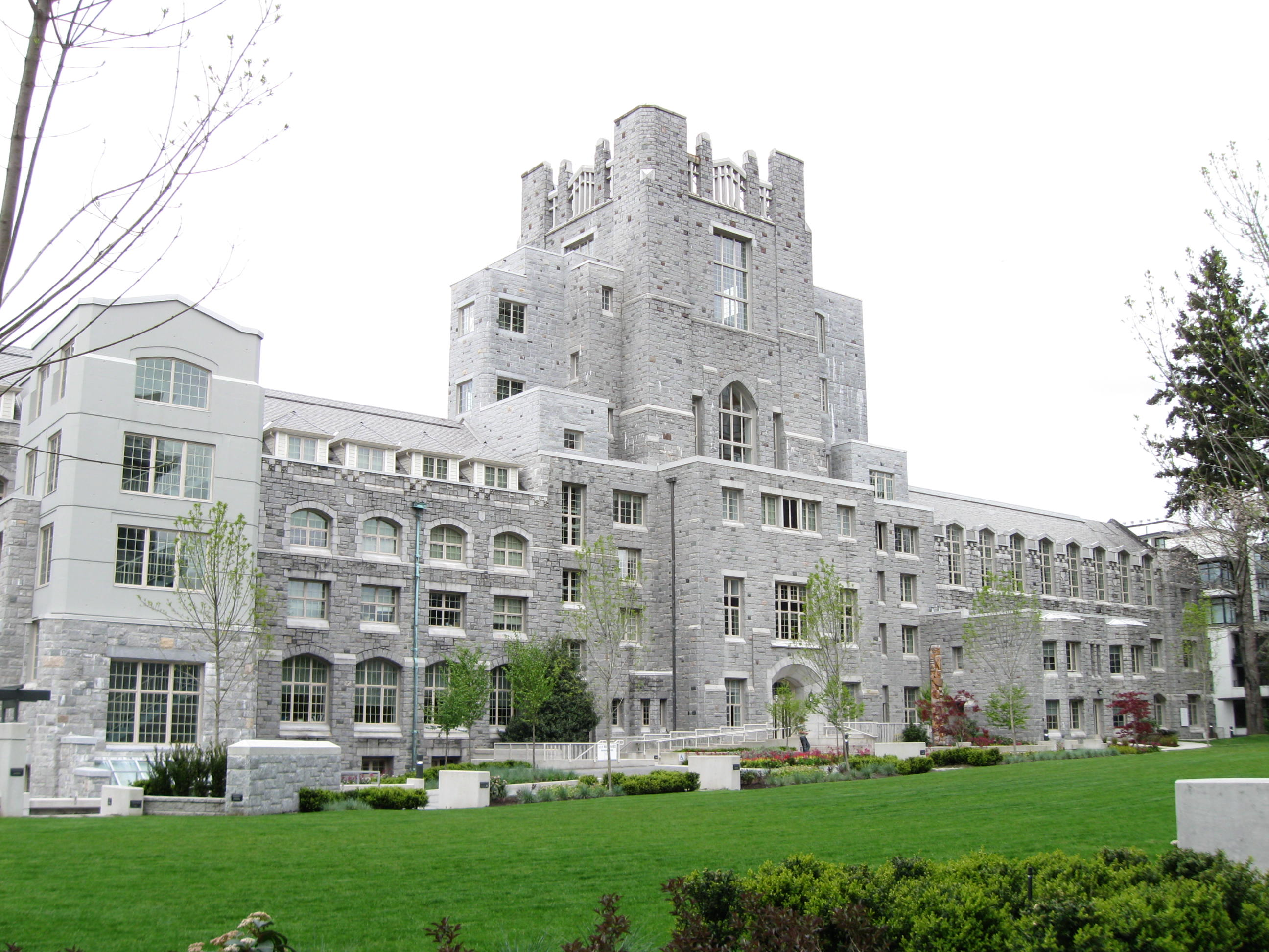 This building is today known as the Vancouver School of Economics.[1] This was known as the Vancouver School of Theology (VST) in the Vancouver campus of UBC in Canada in 2009. It was formerly called as the "United Church of Canada: Union College of B.C." This stone building was initially constructed in 1927 and additions to its wings were made in the 1930s. It is located at 6000 Iona Drive in Vancouver, BC, Canada. On January 8, 2014 the Vancouver Sun reported that UBC had purchased this elegant 86 year old building on Iona Drive for $28 million and will convert it as the new home of the UBC's school of Economics since the building was too large and costly for the VST's 115 full- and part-time students to maintain.[2] The Christian graduate school will move in the summer of 2014 to a smaller building "on the north side of the UBC campus, called Somerville House." The VST could not afford this building's 100,000 square foot operating costs.[3] The VST will use a portion of the sale proceeds to relocate their operations to more suitable space in the UBC theological neighbourhood and place the balance of the funds in an endowment to support its educational mission and operations.[4] Its has now been converted in the Vancouver School of Economics building.